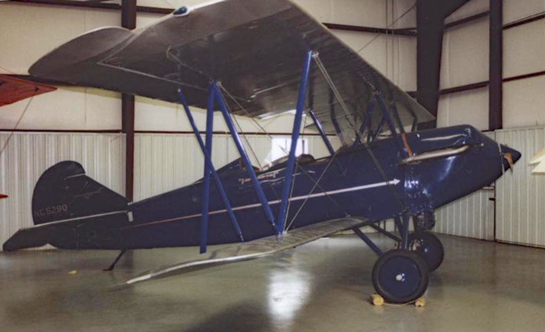 Travelair 2000 biplane (1928) at the Historic Aircraft Restoration Museum, Creve Coeur, Missouri